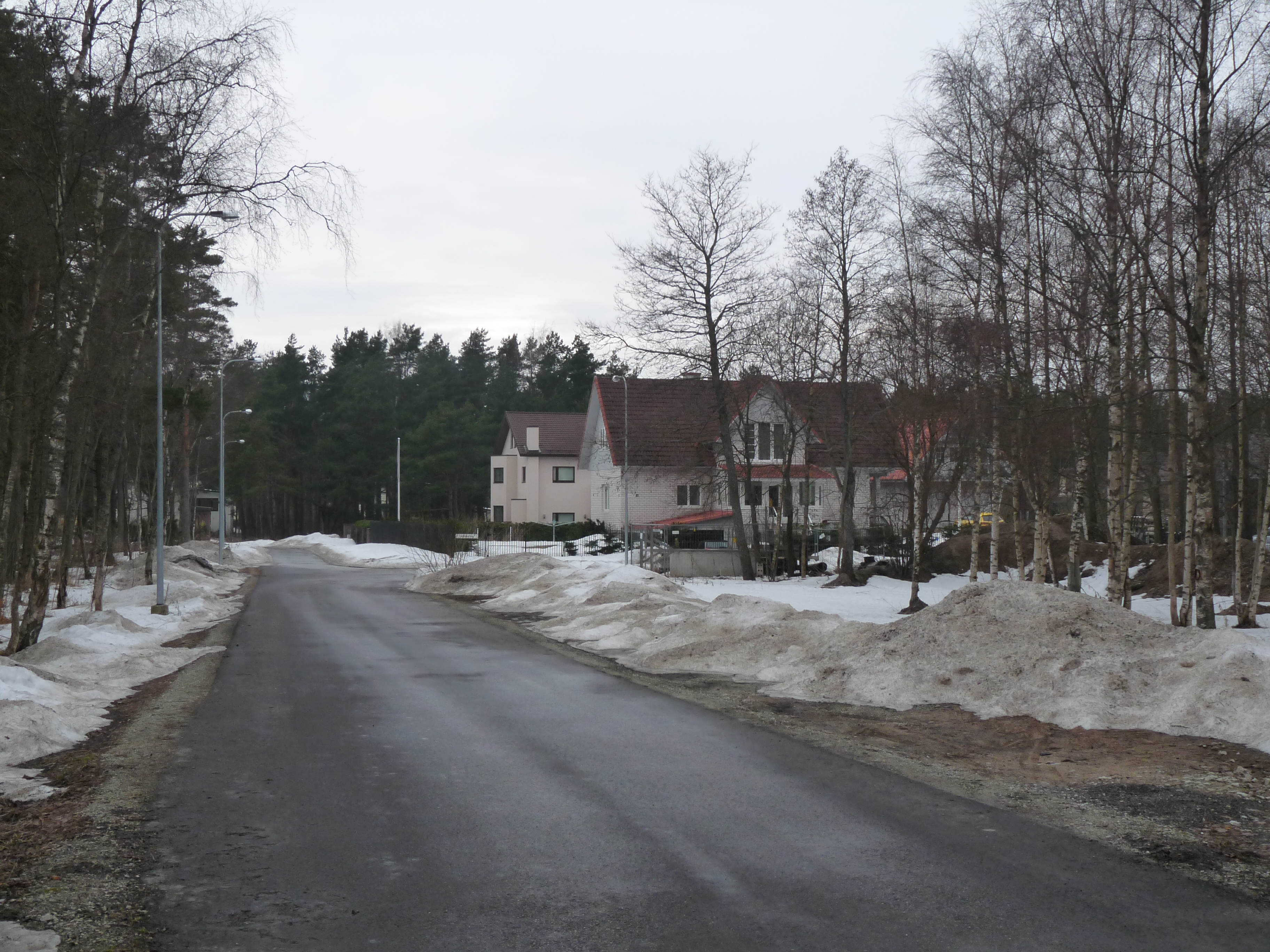 Ussilaka street in Tallinn